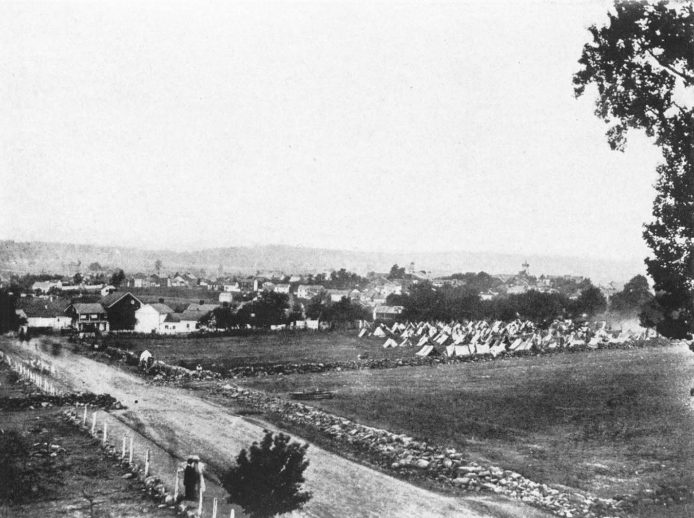 Black and white photograph of Town of Gettysburg, Pennsylvania, about the time of the Civil War battle. The point of view is about where the Eleventh Corps was positioned.